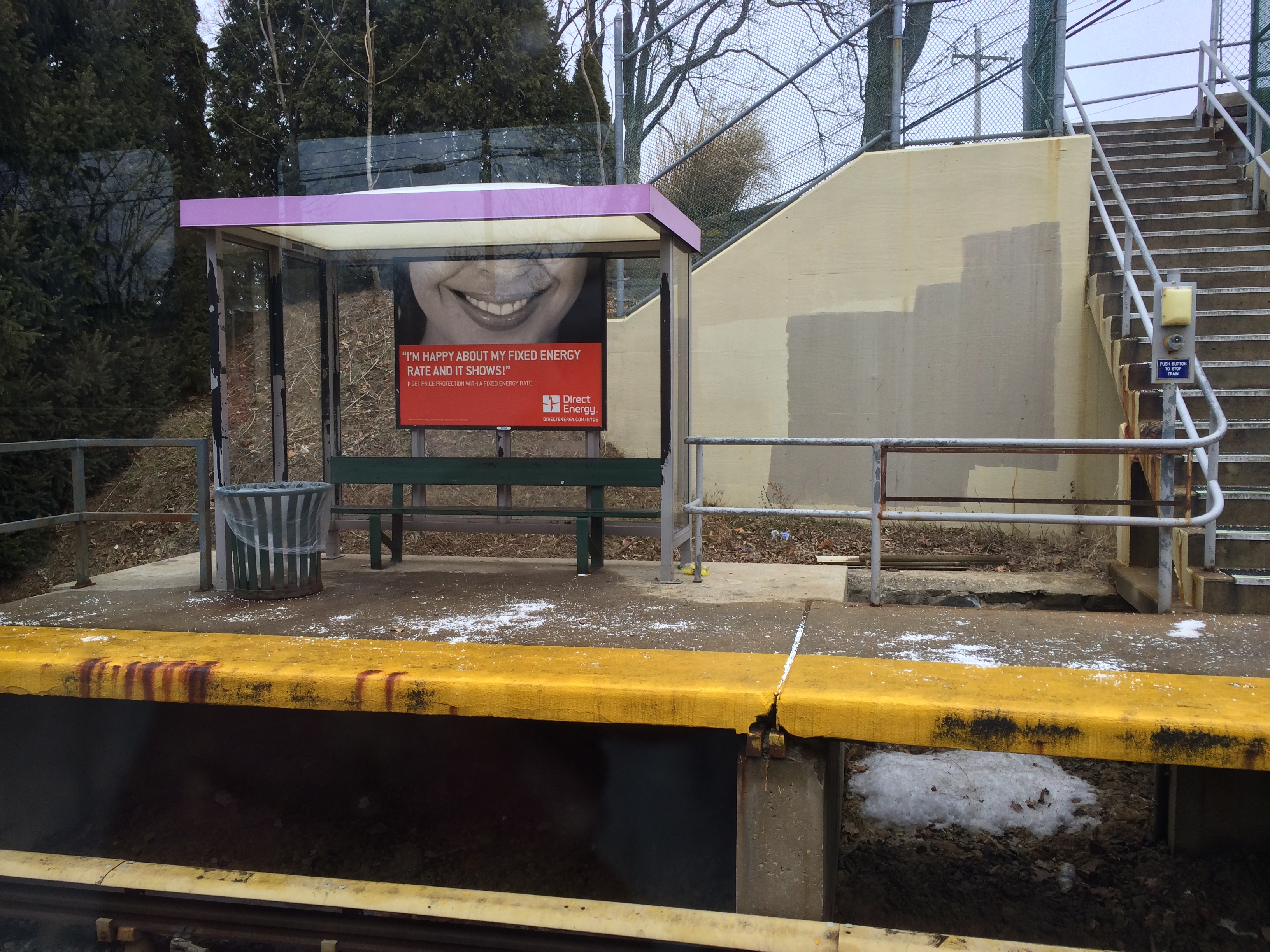 Hughes Park station on SEPTA NHSL